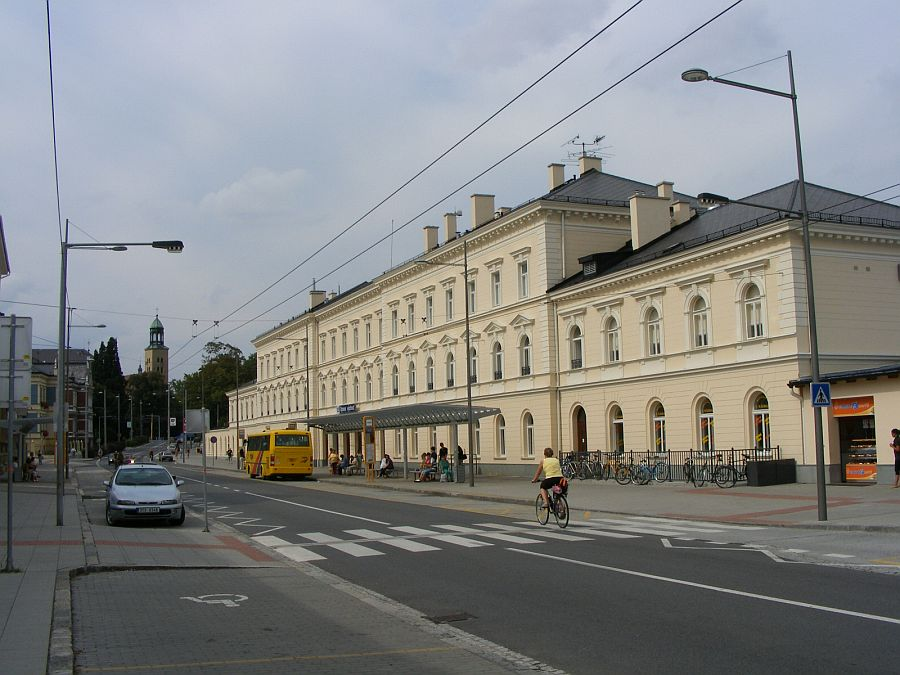 Opava - eastern station